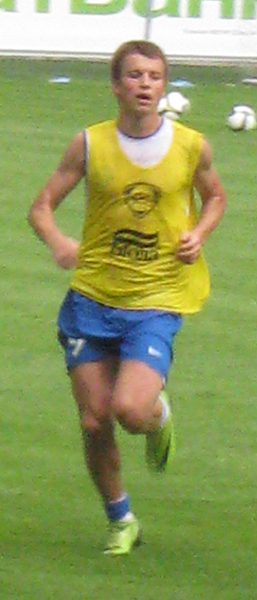 Ruslan Rotan during open training of FC Dnipro Dnipropetrovsk on Dnipro-Arena